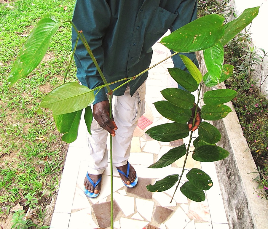 Long-stemmed S.arnoldianum held in the right hand as compared to a similar leaf plant held in the left hand found in the same zone. Distinctive by the structure of the long-stem, the S. arnoldianum plant grows vertically and reaches over 2 meters in height. Prefers forest edge and humid conditions. An important part of central African, especially Congo cuisine. Proper identification is important as it is one of several species of leaves used to wrap food for cooking popular recipes such as 'chikwangue' (cassava bread) and 'liboke'. Alternate name: Megaphrynium macrostachyum